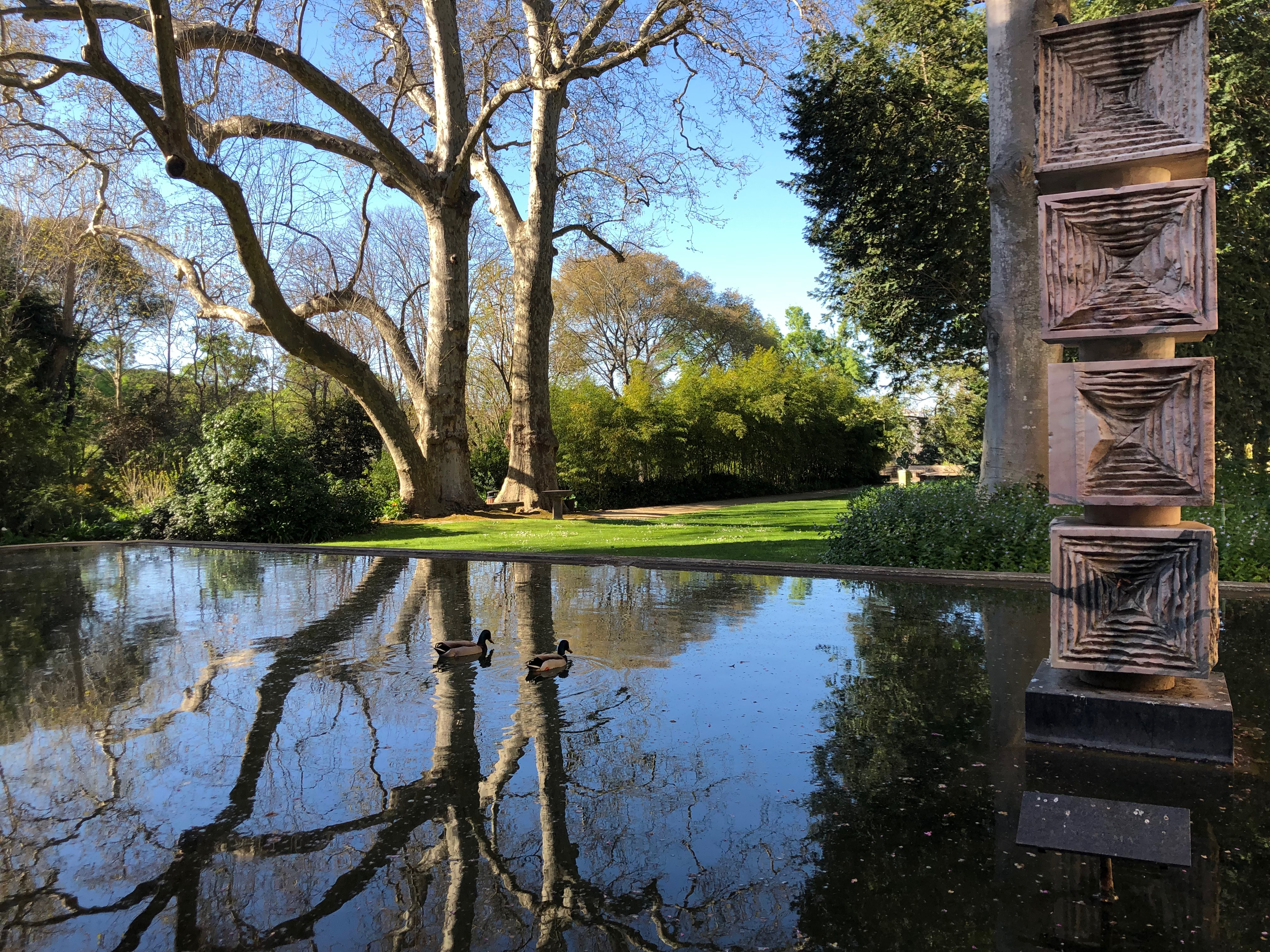 Castle of the Eye, by Minoru Niizuma located in the Jardim Montiero Mor in Lisbon, Portugal